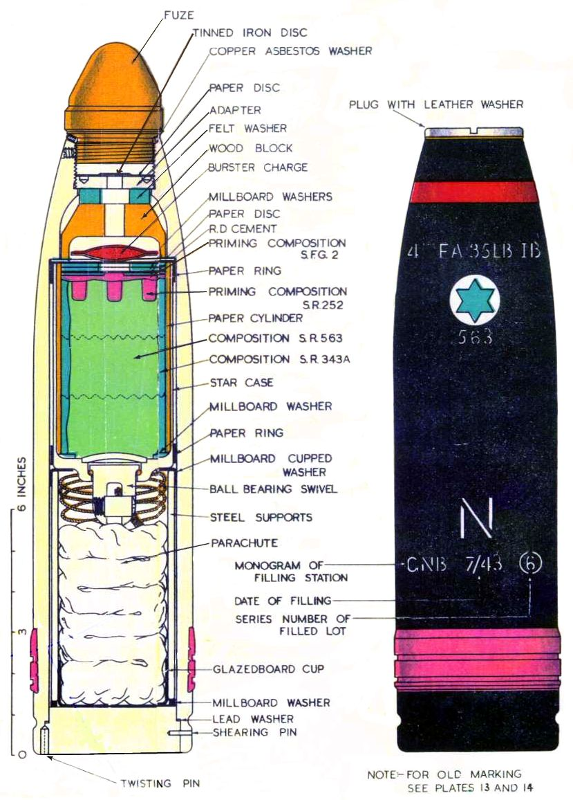 Diagrams depicting British 4-inch star shell, 35 lb.